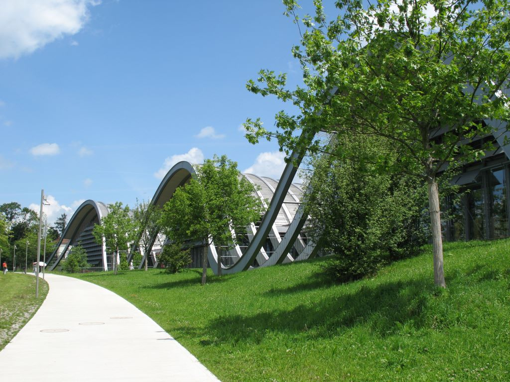 Paul Klee Museum, Bern, Switzerland